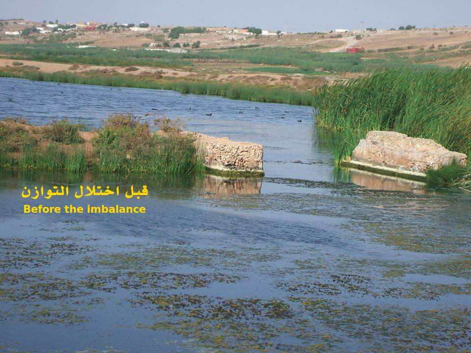 Sidi Moussa Lagoon Nature Preserve - View